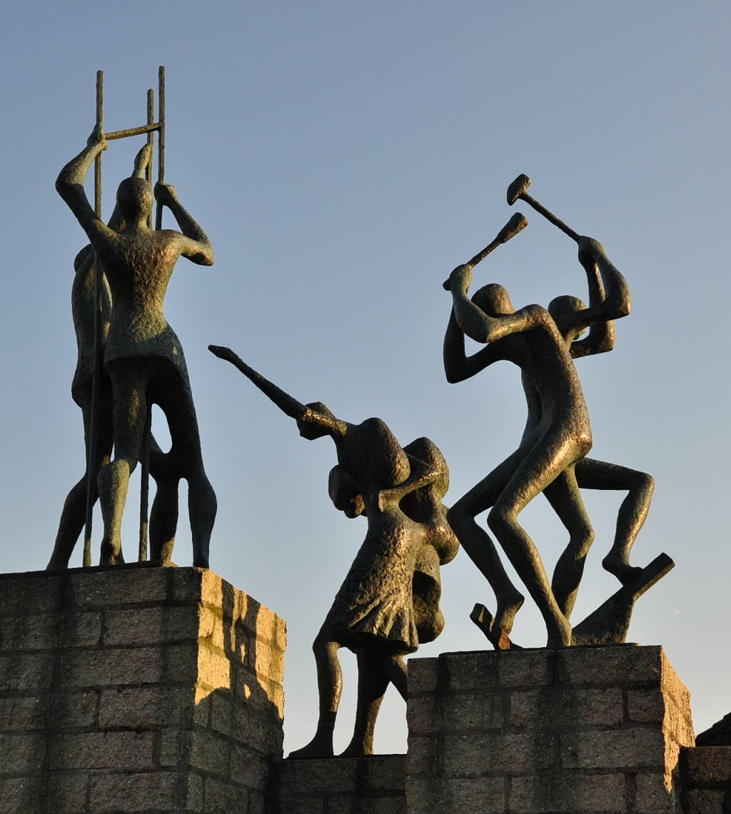 Statue by Frank Nix in the E.A. Borgerstraat in Katwijk, Netherlands, entitled: "Afbraak, evacuatie en wederopbouw" (Demolition, evacuation and reconstruction). It refers to the partial demolition and evacuation of the town by the Germans during the second World War to allow for the construction of the Atlantic Wall; and to its reconstruction after 1945. The monument is from 1990.